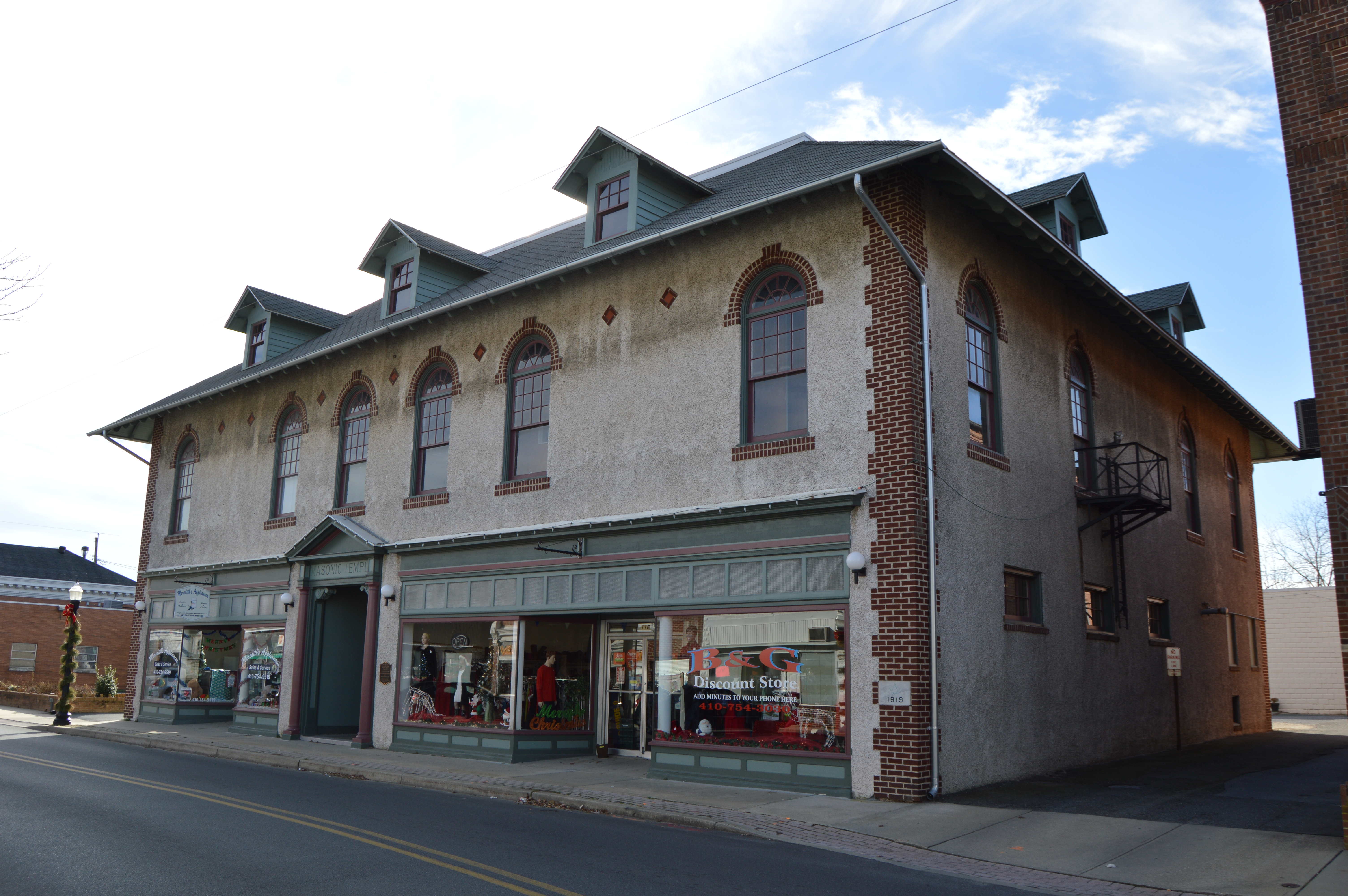 Front and northern side of the Nanticoke Lodge No. 172, A.F. and A.M., located at 112-116 N. Main Street in Federalsburg, Maryland, United States. Built in 1920, it is listed on the National Register of Historic Places.